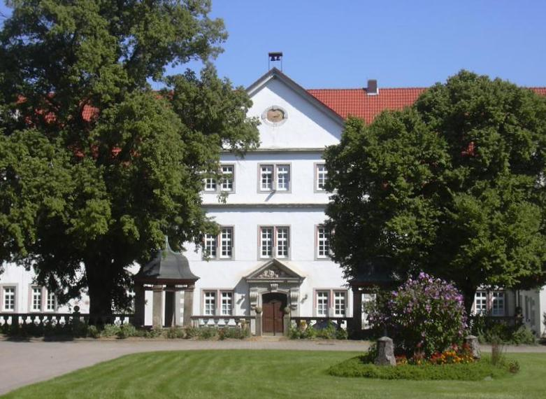 Castle of Henneckenrode near Holle, Germany